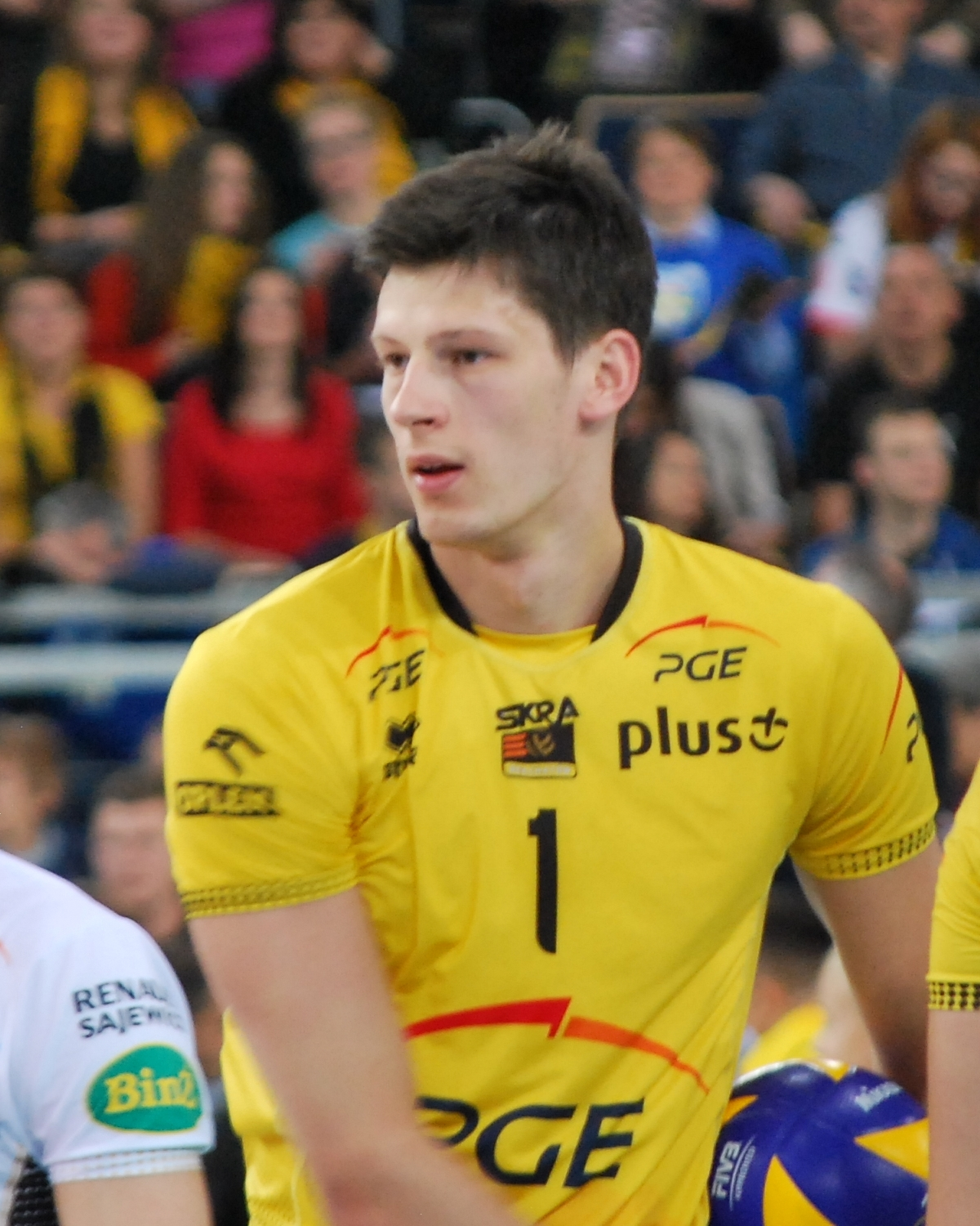 Srećko Lisinac, volleyball player from Serbia